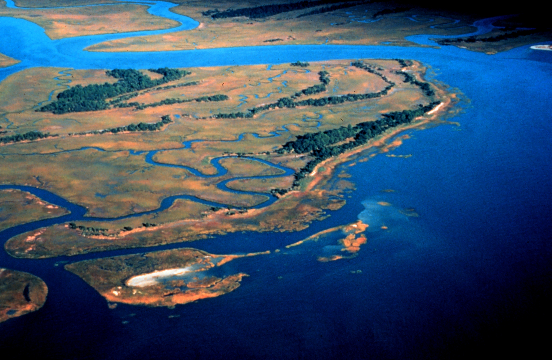 ACE Basin National Estuarine Research Reserve. An aerial view of Pine Island